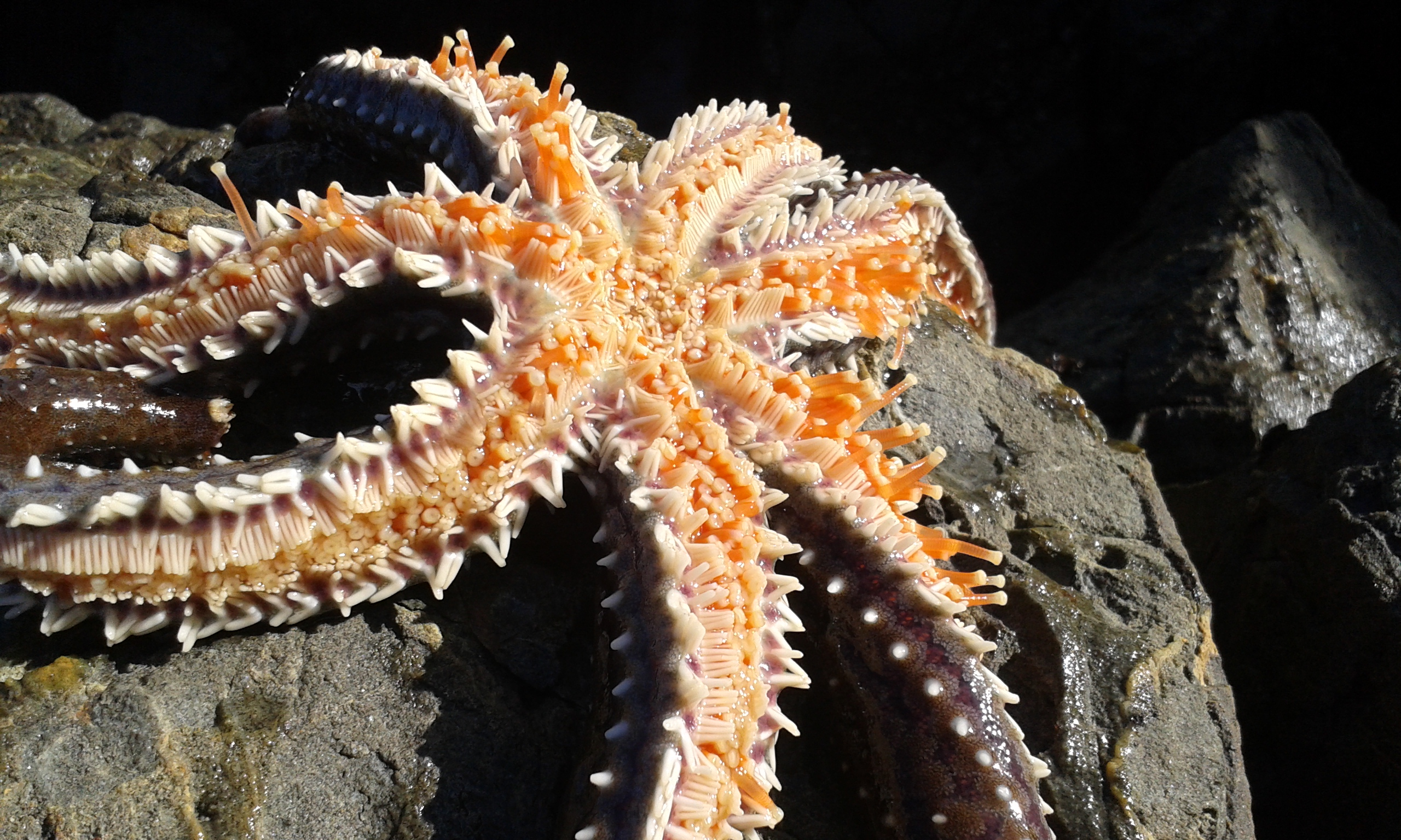 Astrostole scabra adult showing ventral surface and tube feet, at Moa Point, Wellington 20 July 2016